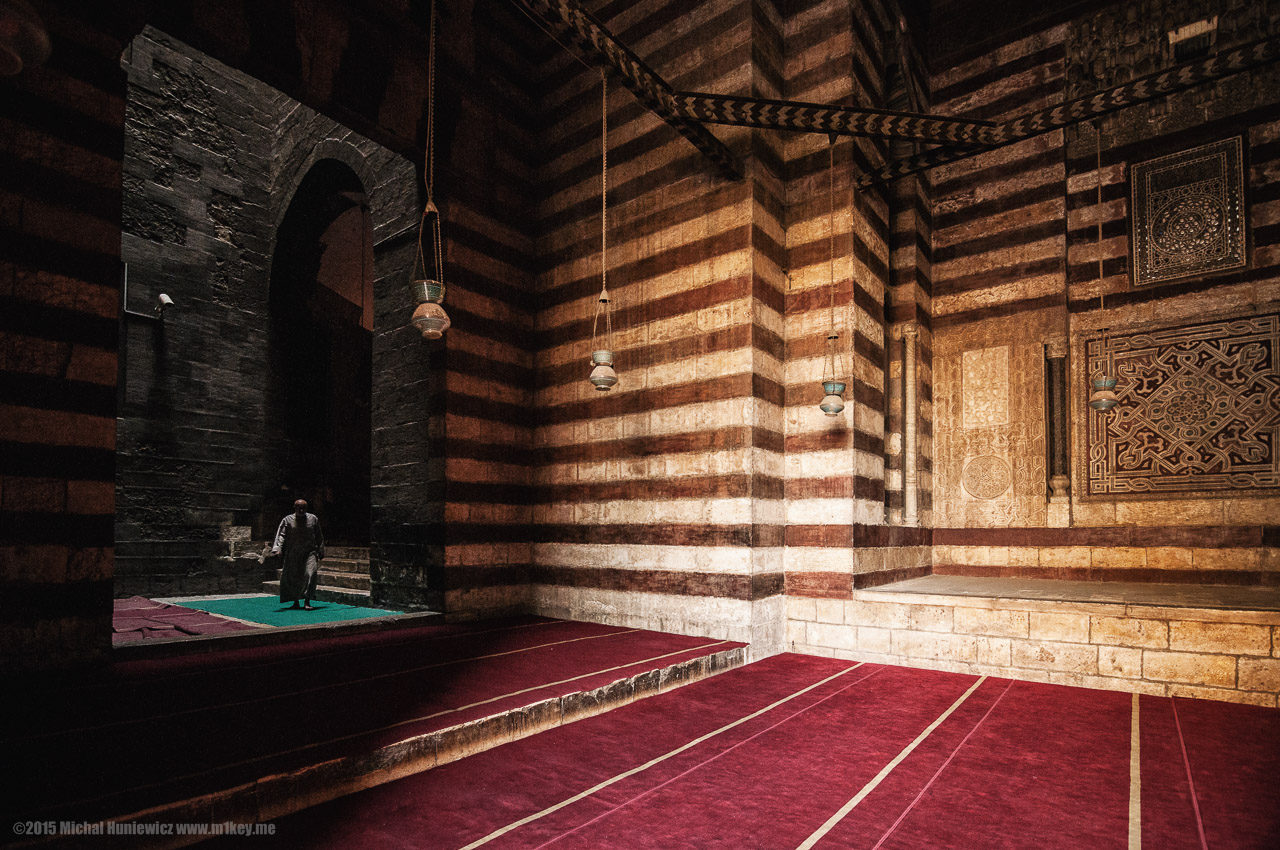 Ablaq entrance to the Mosque-Madrasa of Sultan Hassan in Cairo.